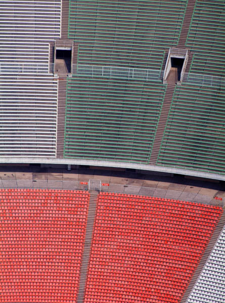 Népstadion, Budapest, Hungary, aerial photography